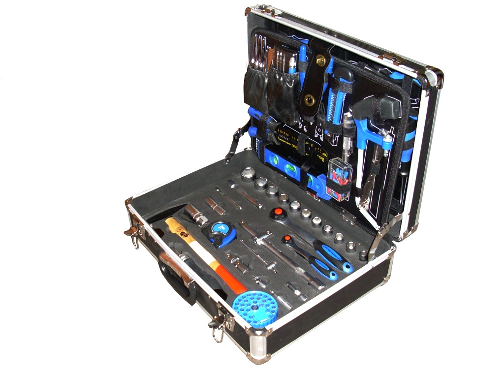 Photo of a tool box/set U-125.